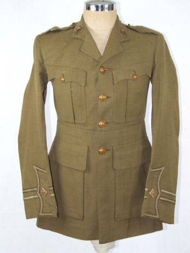 Connaught Rangers ALB ANDERSON'S TUNIC Dated 1914